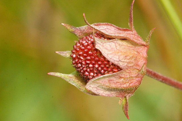 Potentilla palustris from Commanster, Belgian High Ardennes .